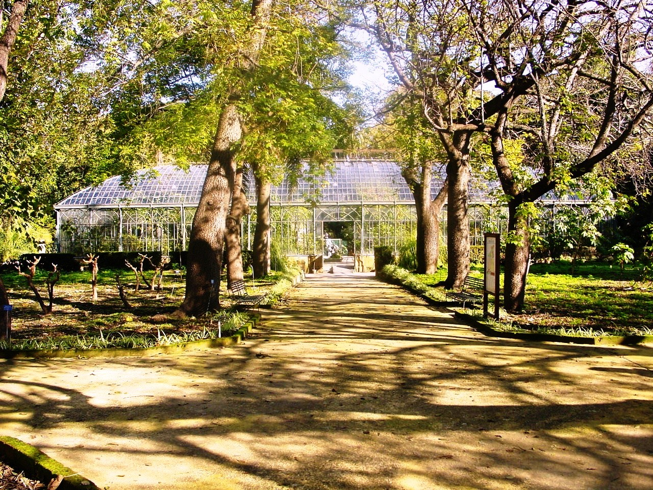 Botanical Garden, Palermo, 2006 photo by tato grasso